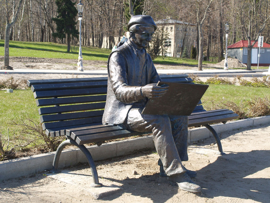 Monument of Antoni Suchanek in Gdynia Orłowo.)